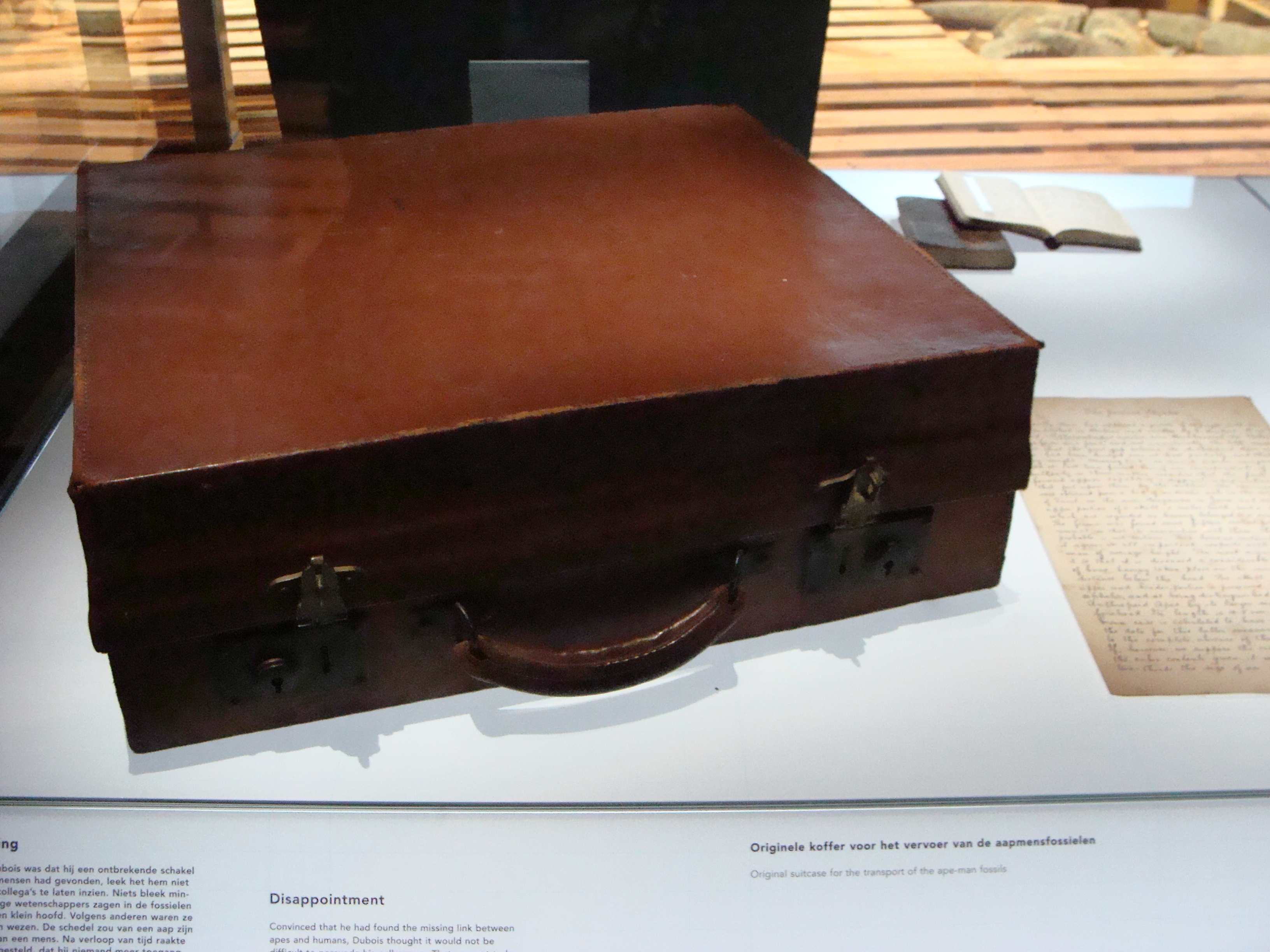 The original suitcase of Eugène Dubois for the transport of his famous ape-man fossils, the Java Man (Homo erectus). It was on display at the exhibition 'Dubois' in the National Museum of Natural History 'Naturalis' in Leiden, the Netherlands. It is the suitcase that Dubois later took on his travels through Europe to convince fellow paleoanthropologists of his ideas.